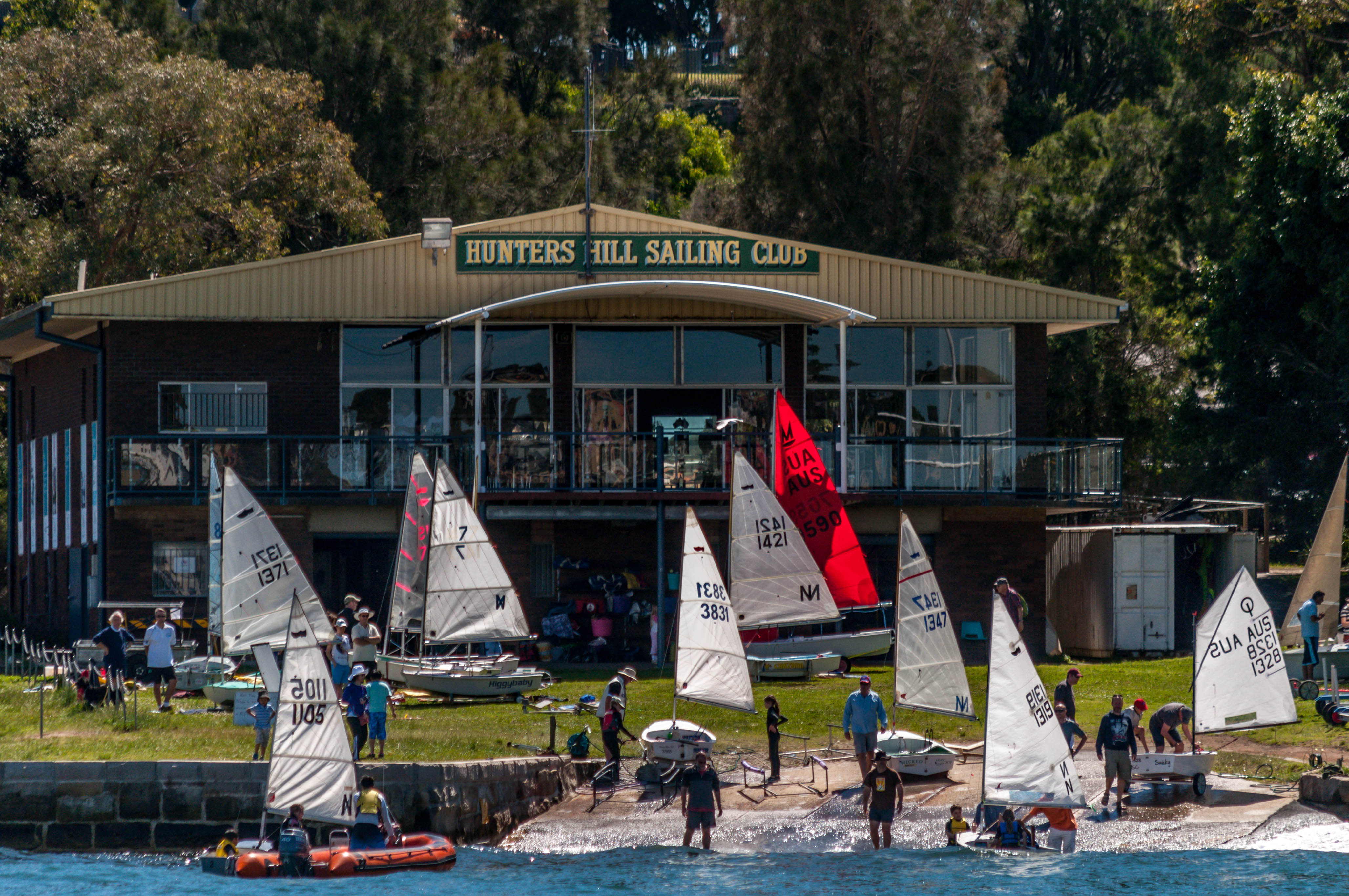 Hunters Hill Sailing Club, New South Wales